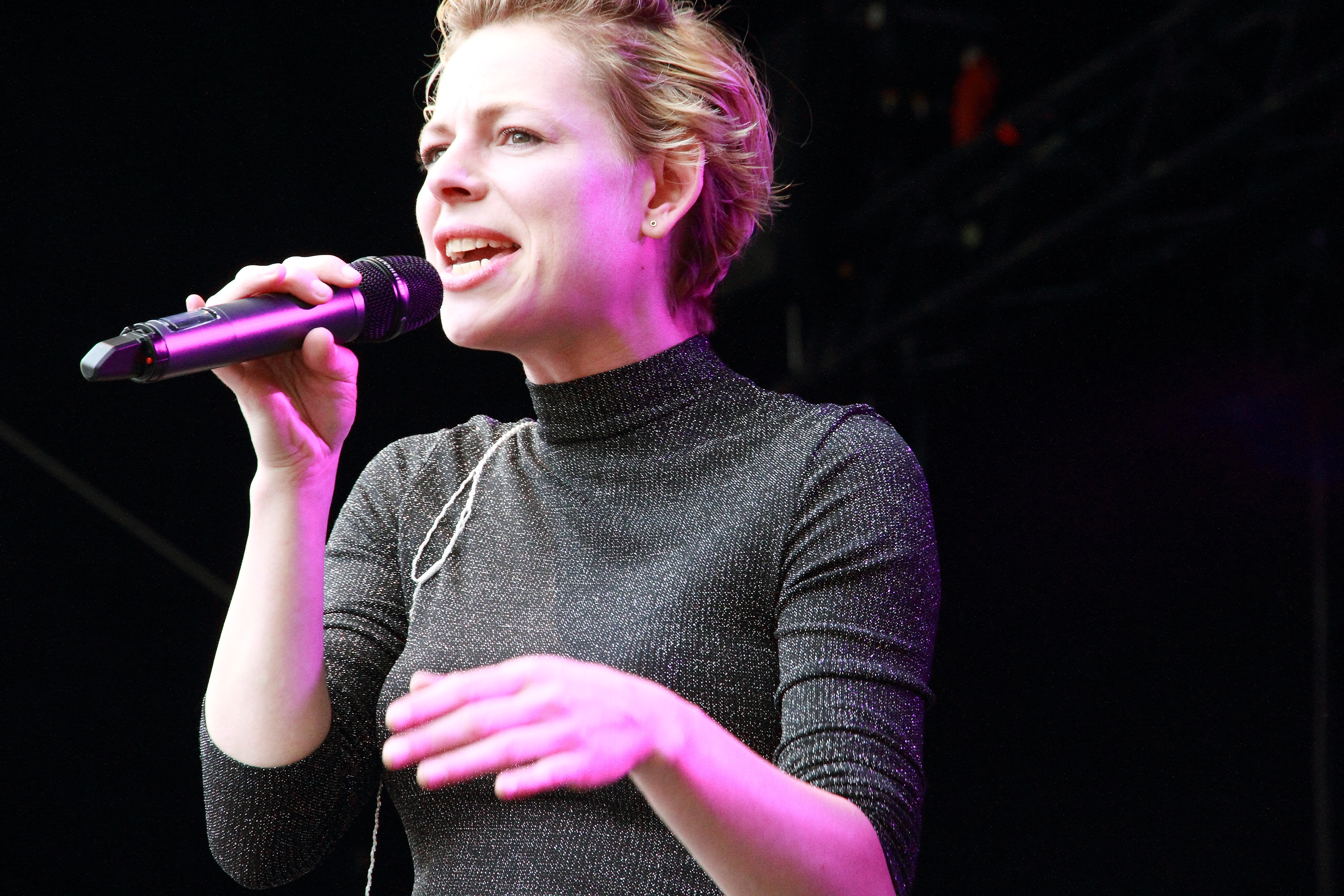 CÄTHE and band at Rudolstadt-Festival 2016.